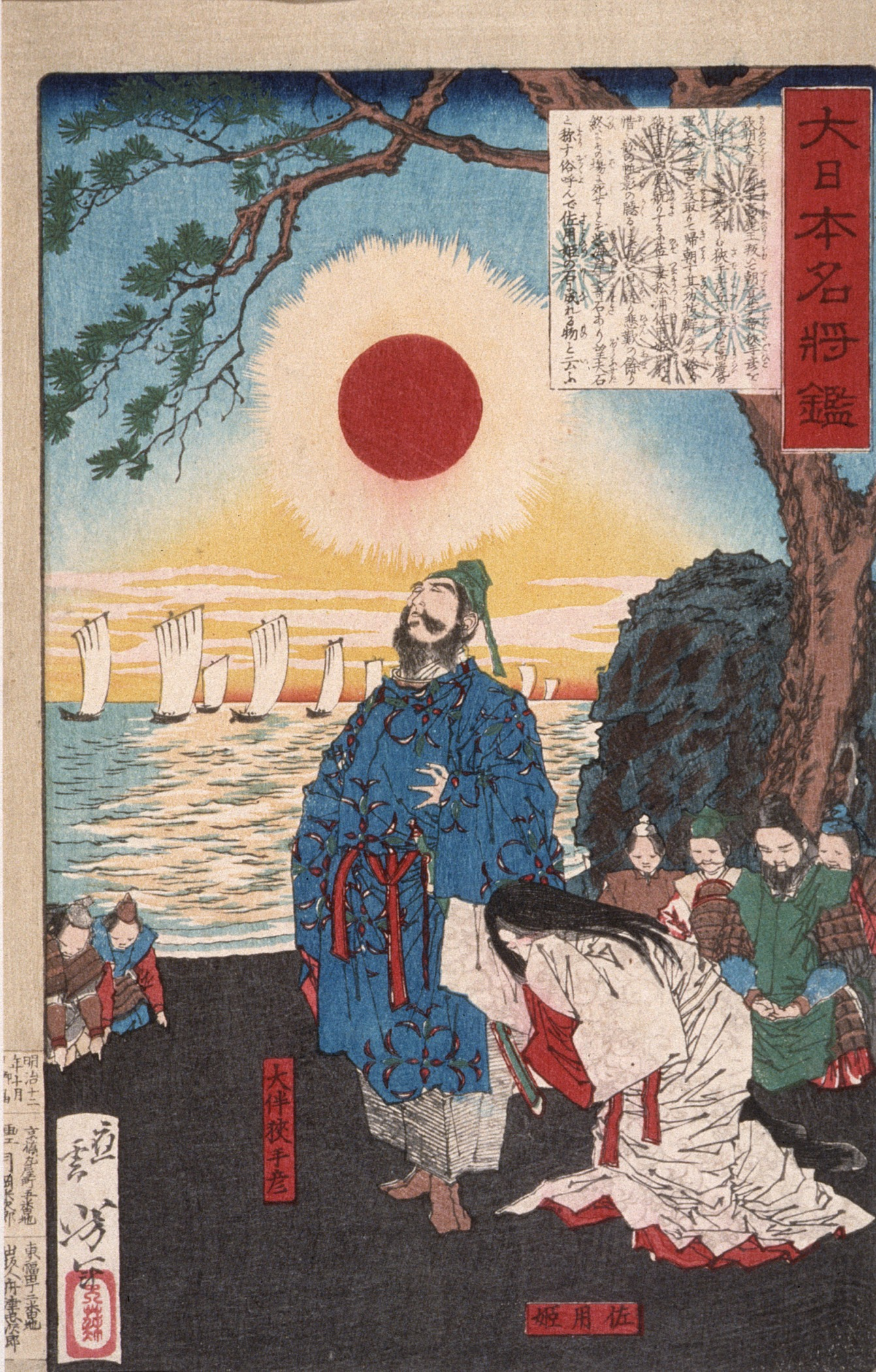 Japan, 10/1879 Series: A Mirror of Great Warriors of Japan Prints; woodcuts Color woodblock print Herbert R. Cole Collection (M.84.31.252) Japanese Art